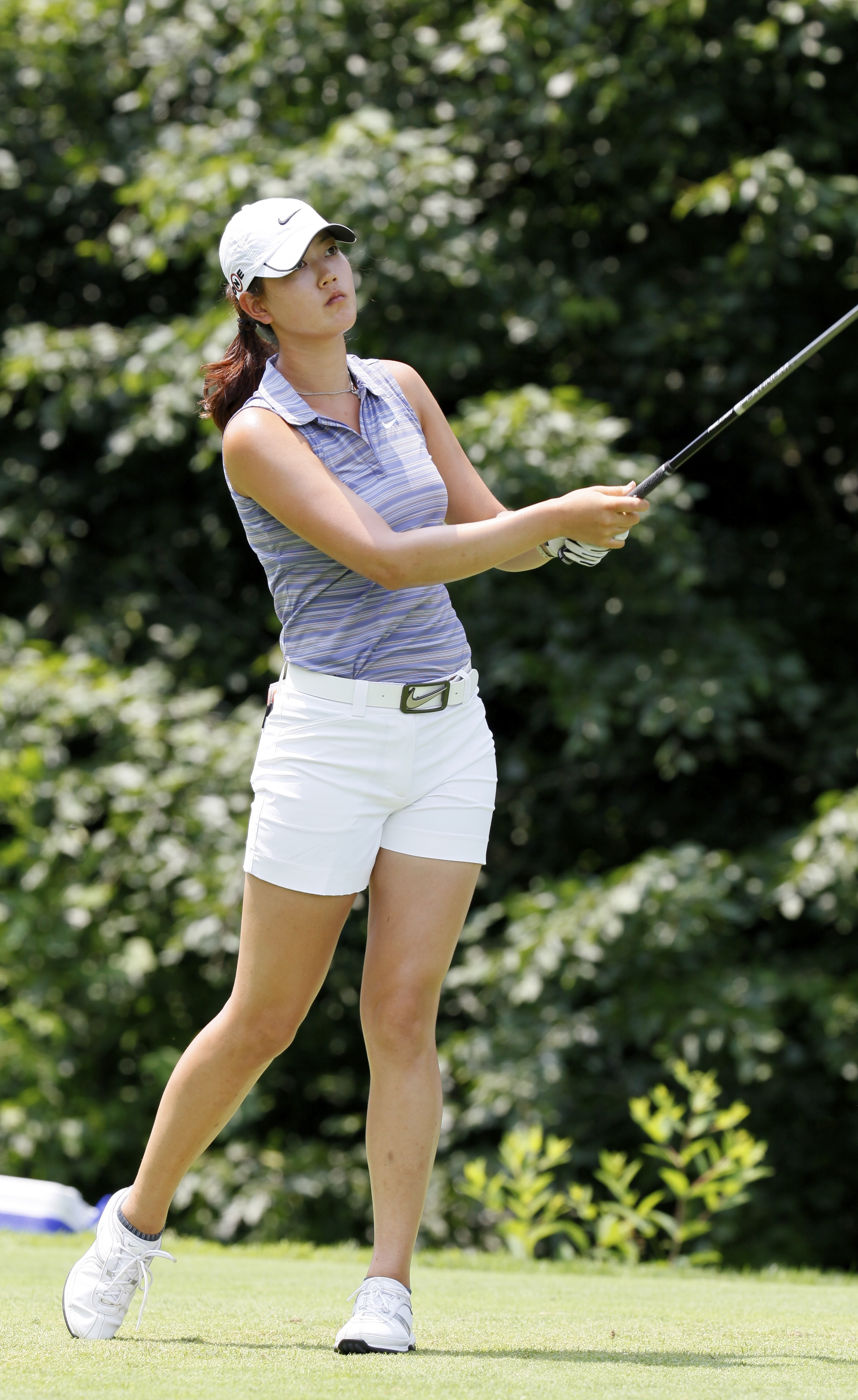 HAVRE DE GRACE, MD - JUNE 10: Michelle Wie (USA) during practice round before 2009 LPGA Championship held at Bulle Rock Golf Course, on June 10, 2009 in Havre de Grace, Maryland. (Photo by Keith Allison)